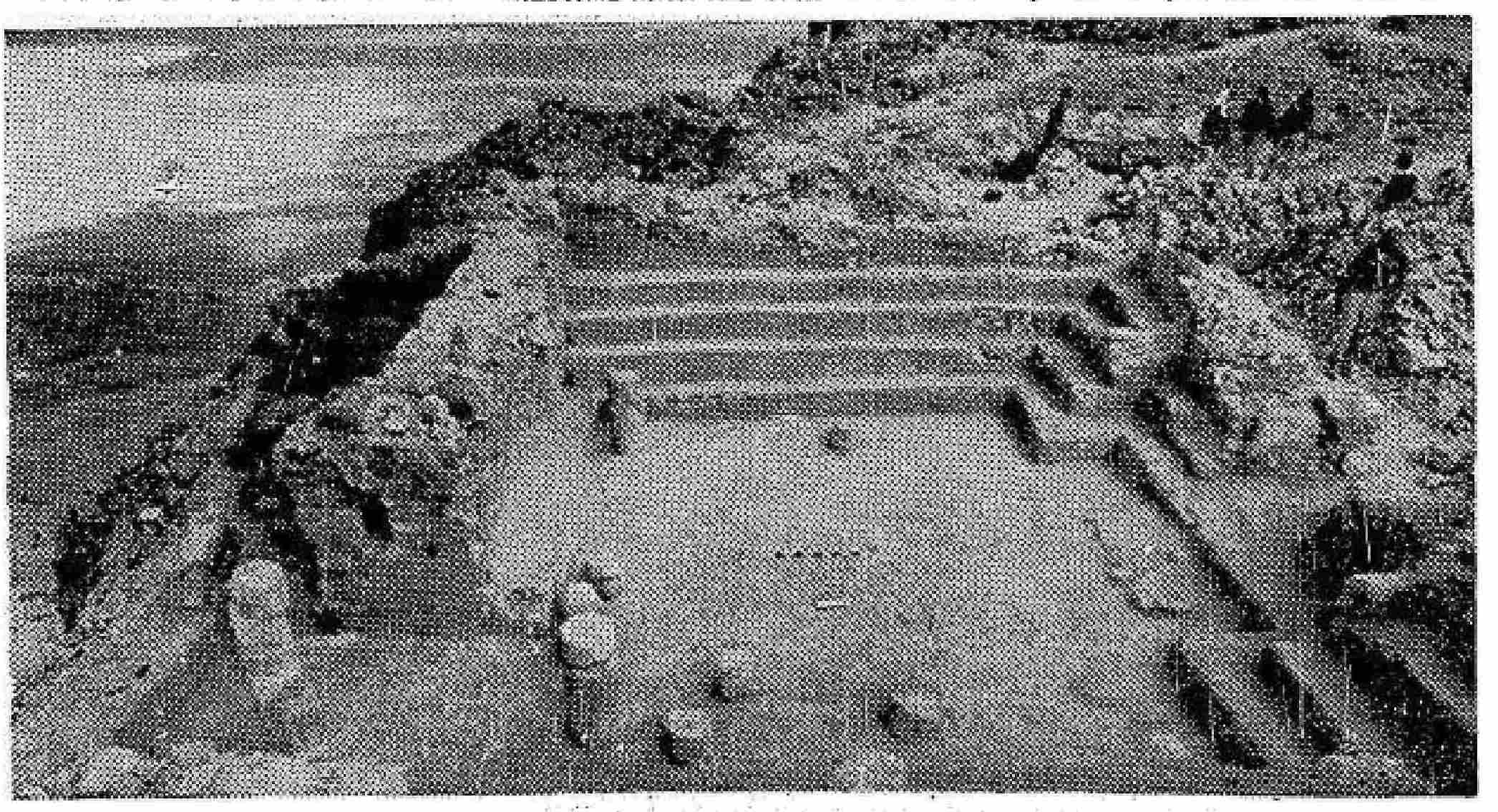 Massada synagouge in March 1965 or earlier